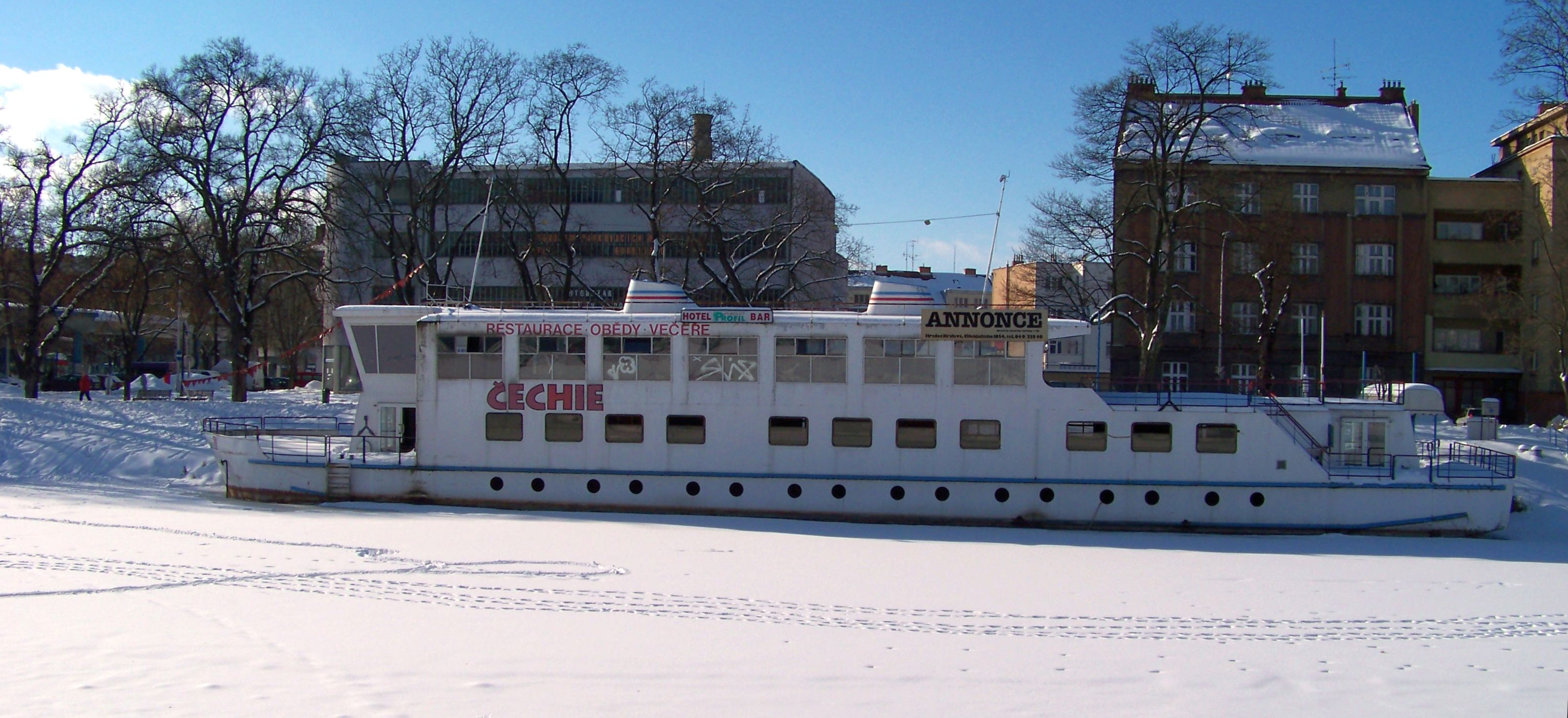 Hradec Králové, the Czech Republic. Čechie Botel on the Elbe River. - Google Maps - Google Earth